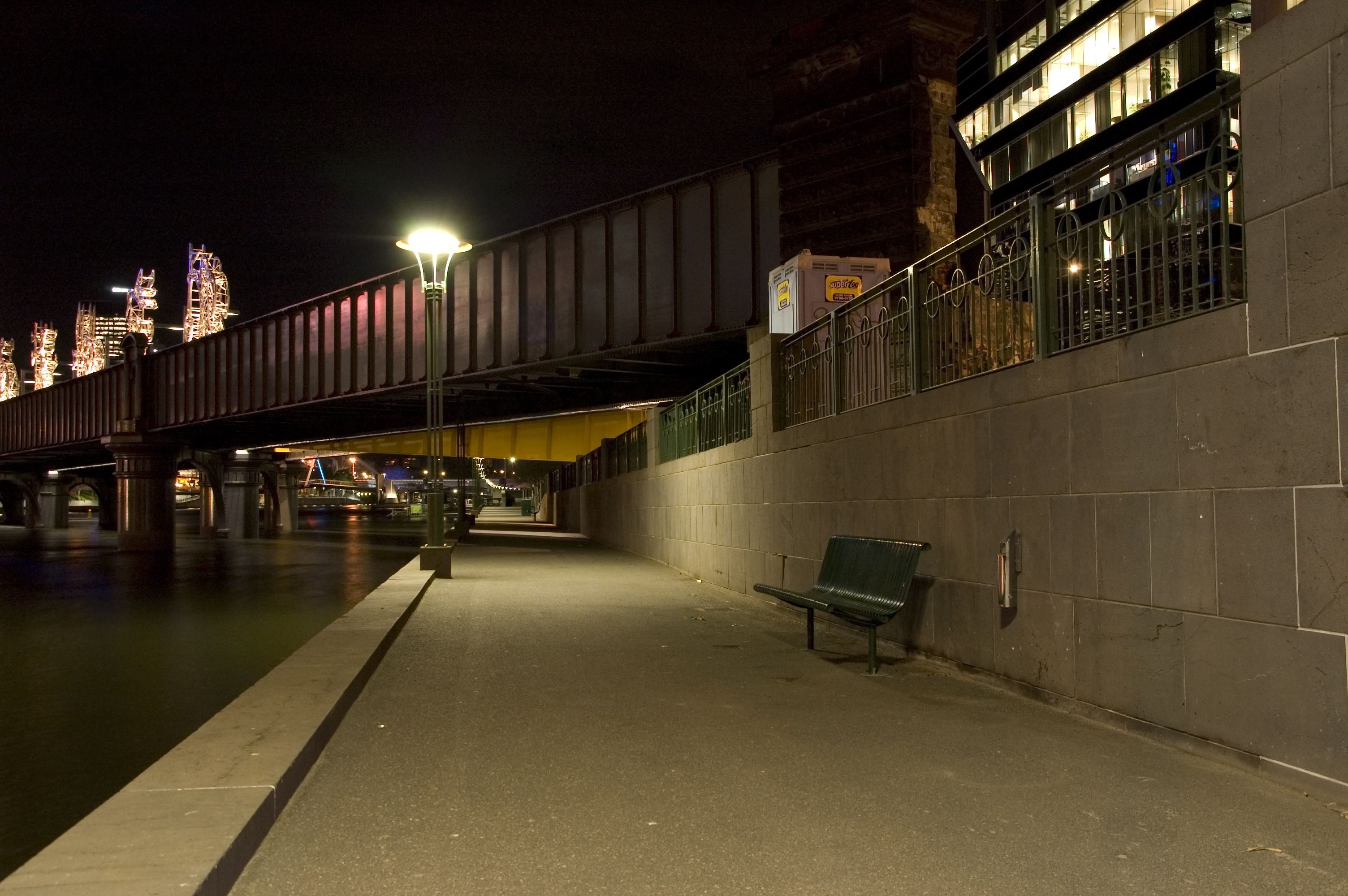 Sandridge Bridge, Melbourne, viewed from below.